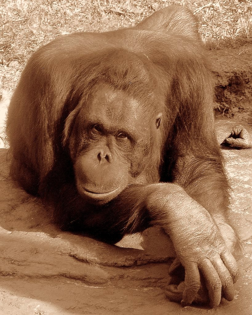 Female orangutan posing (Moscow zoo)